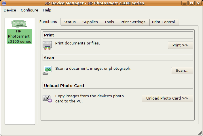 Screenshot of the HP Linux Imaging and Printing toolbox.